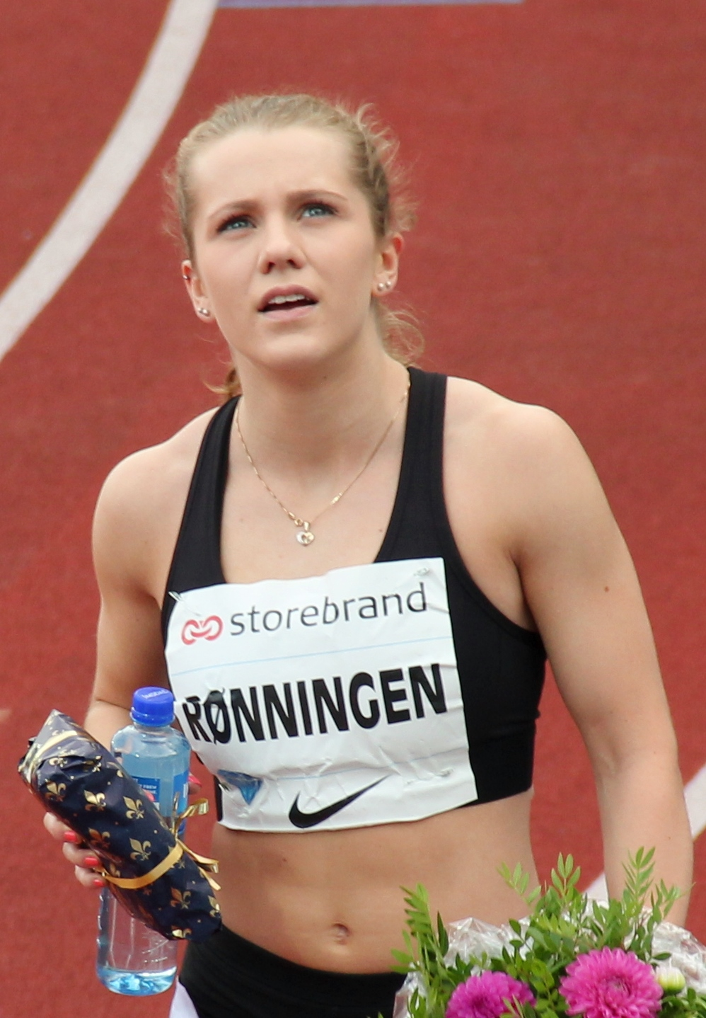 Rønningen at the 2017 Bislett Games